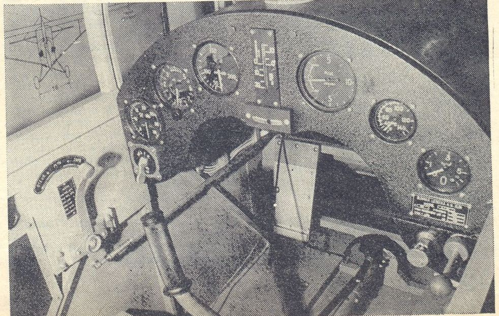 Zlin XII 212 cockpite